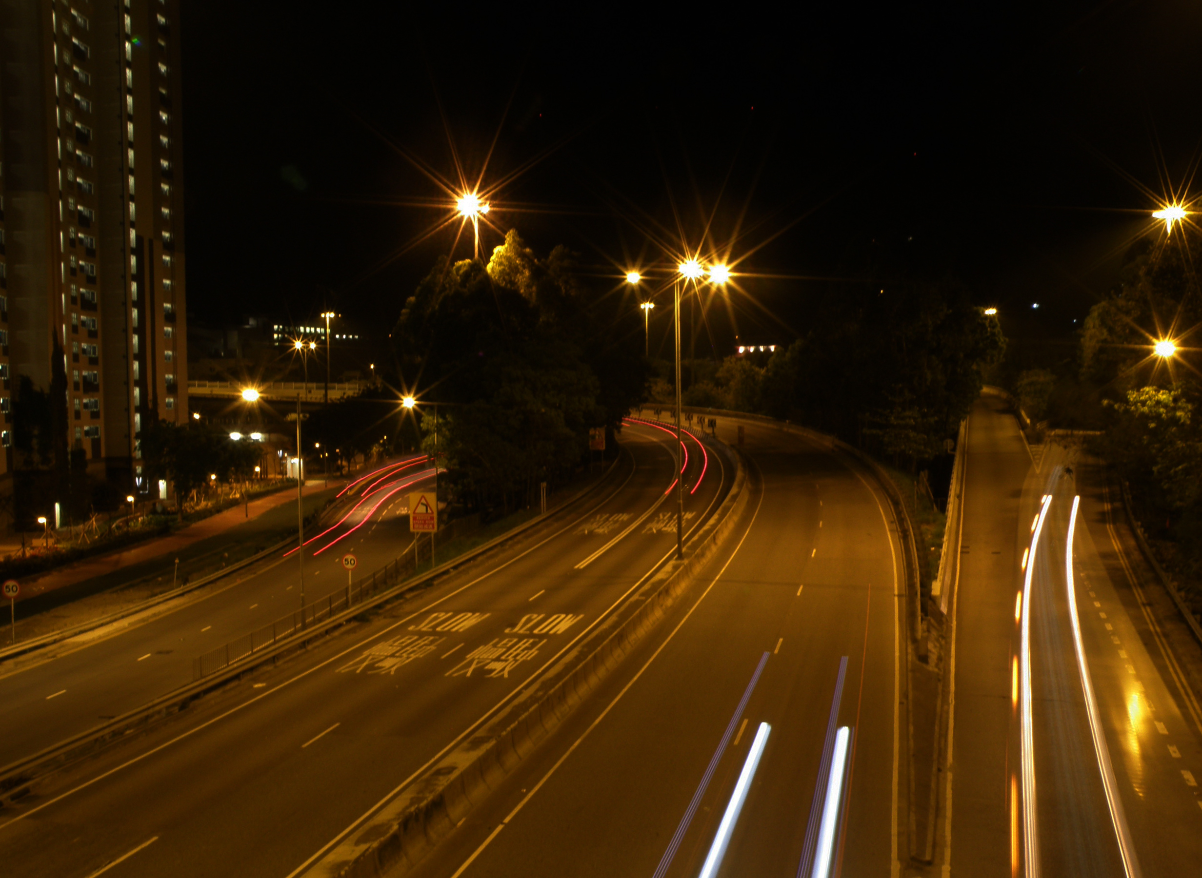 Lung Fu Road in Tuen Mun, Hong Kong.